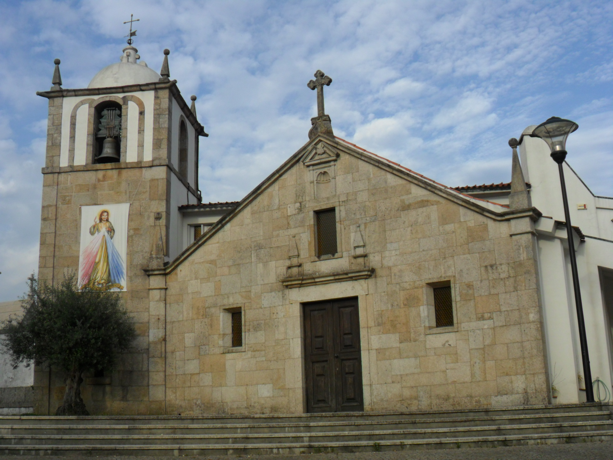 This file was uploaded for Wiki Loves Monuments in Portugal with the unique identifier 97008711.